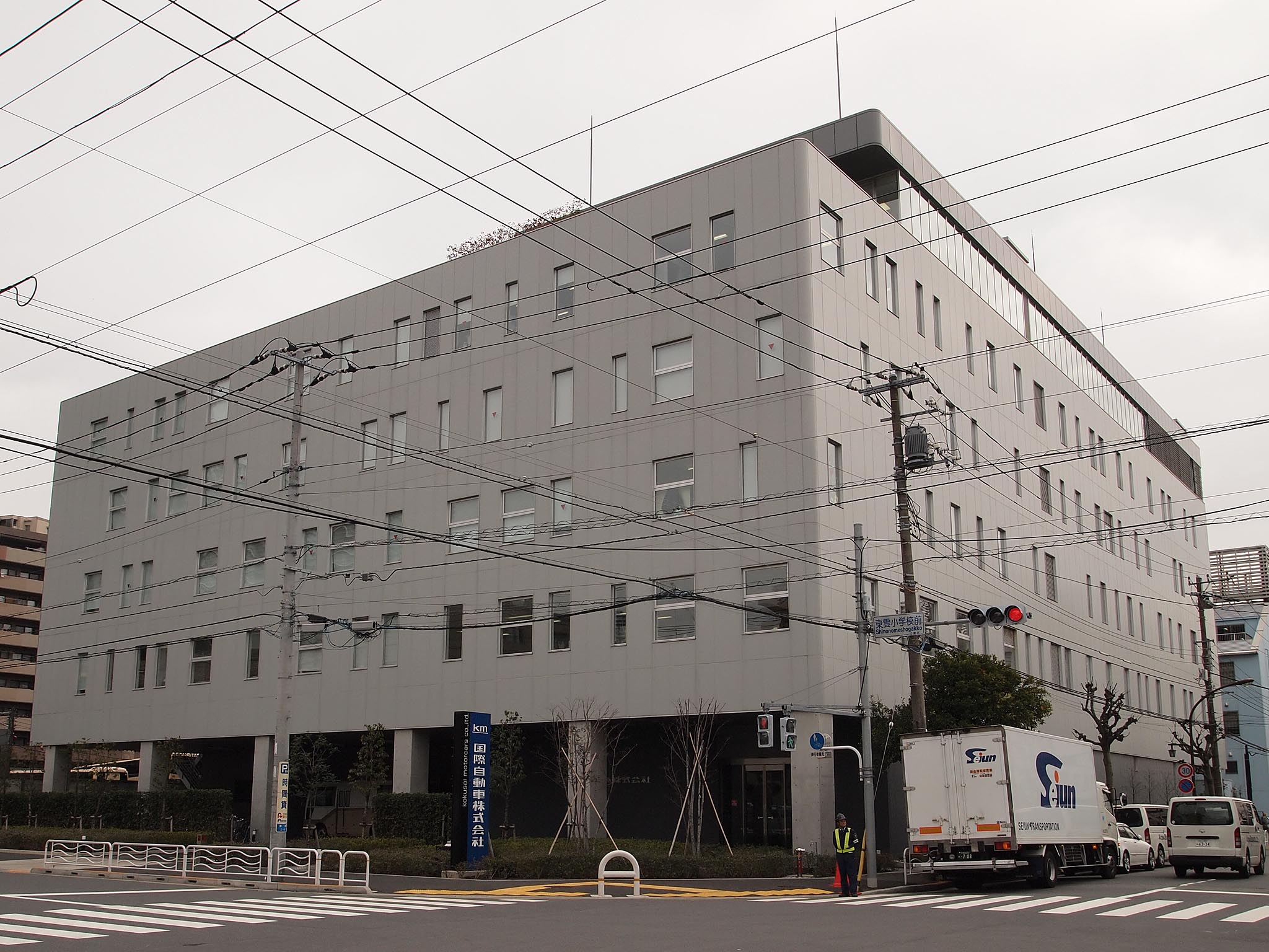 Kokusai Motorcars (km Group) Shinonome Building: include taxi depot, km Kanko Bus Minato Depot, head office of km Kokusai and vehicle repair shop.